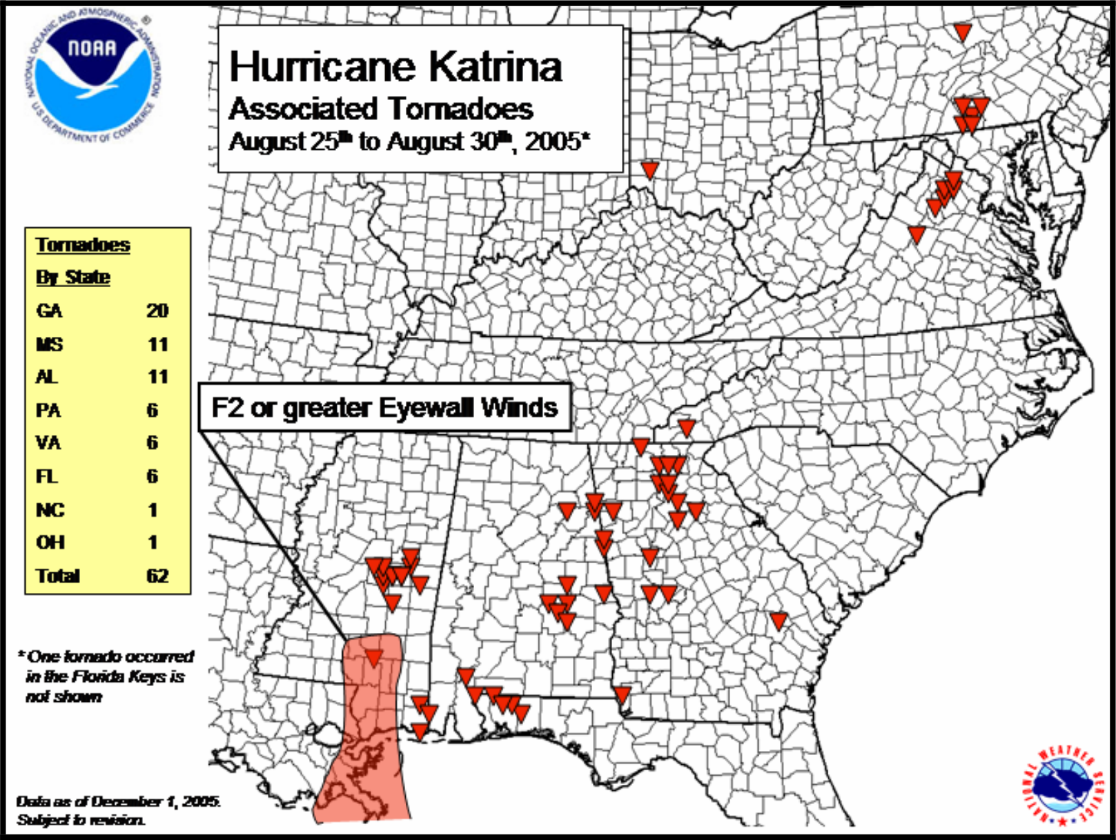 Locations of preliminary tornado reports in association with Hurricane Katrina.